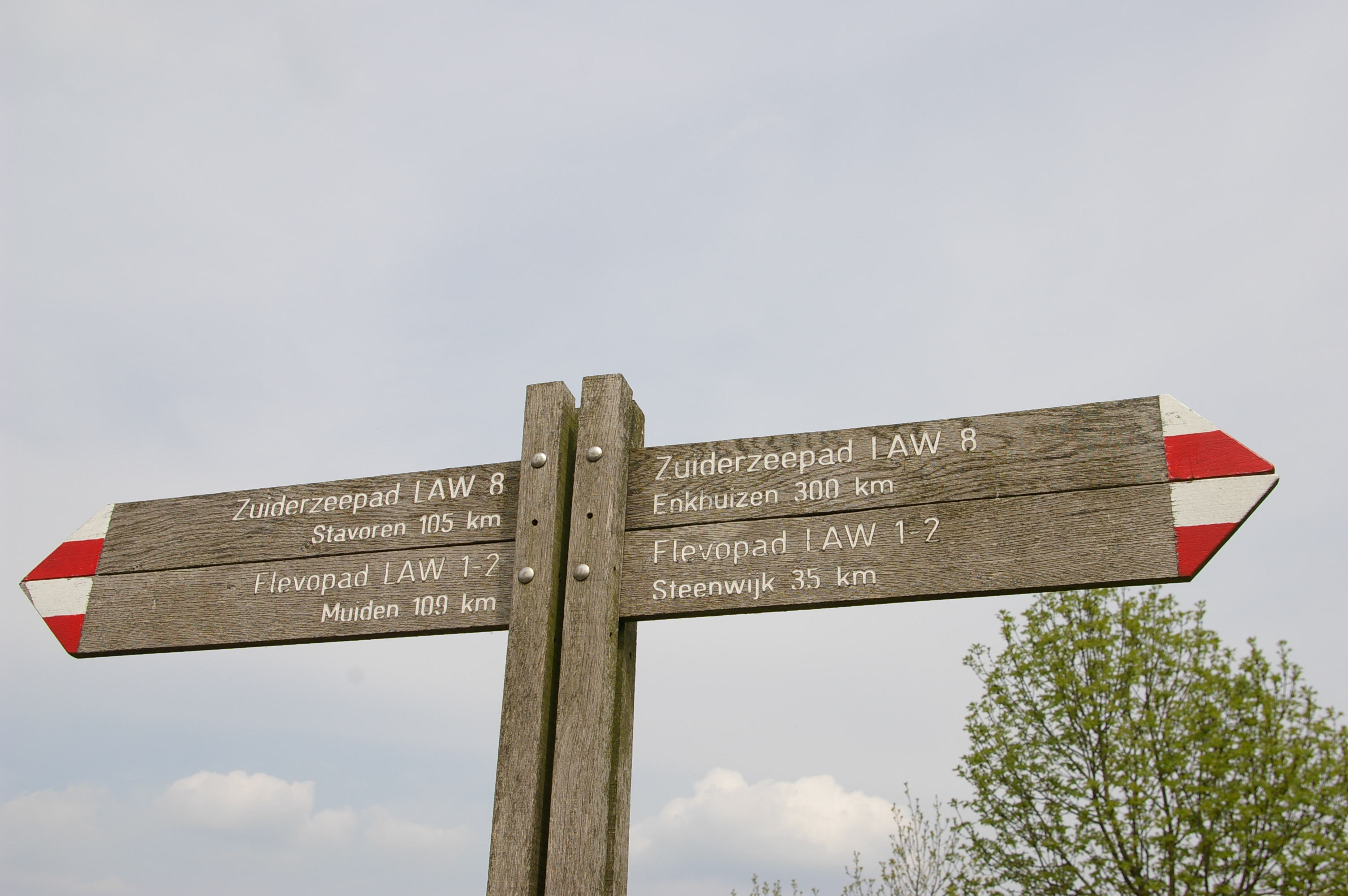 Long distance trails direction sign in Vollenhove